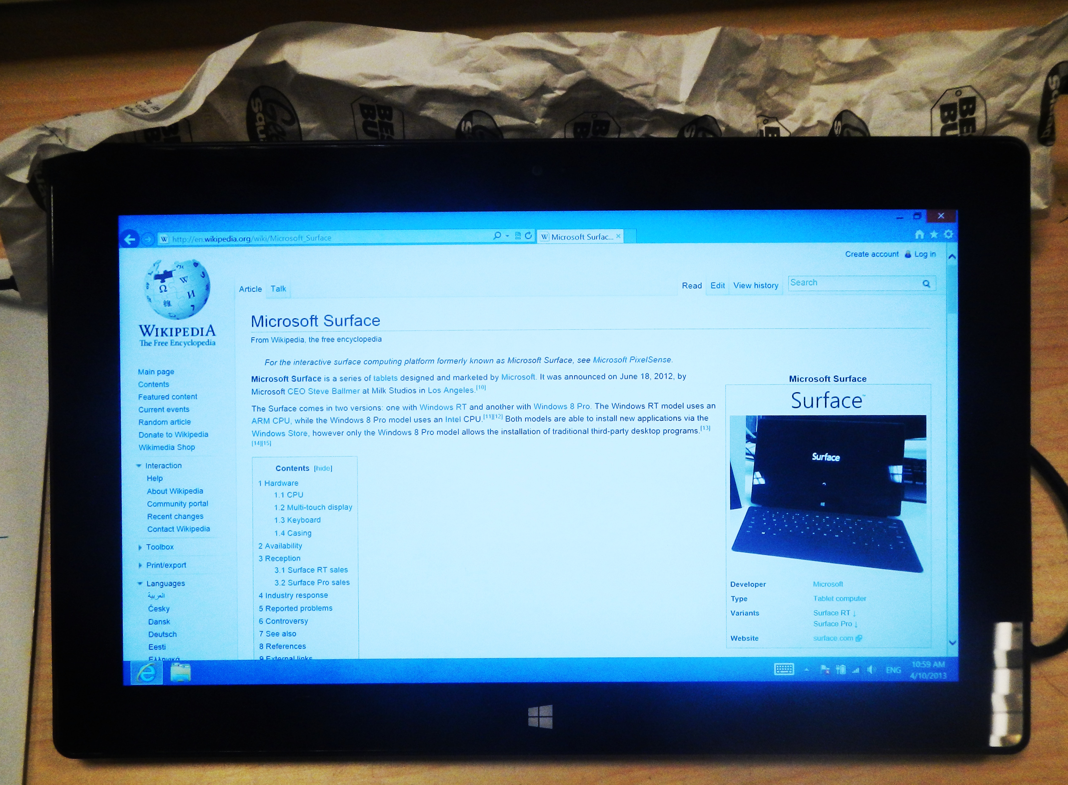 Microsoft Surface tablet, Spring 2013.